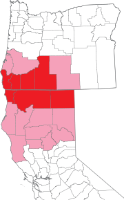 Map of Oregon and northern California showing counties proposed for inclusion in the State of Jefferson in 1941.made this with Illustrator, the map vector outlines were extracted from public domain National Atlas congressional district maps.